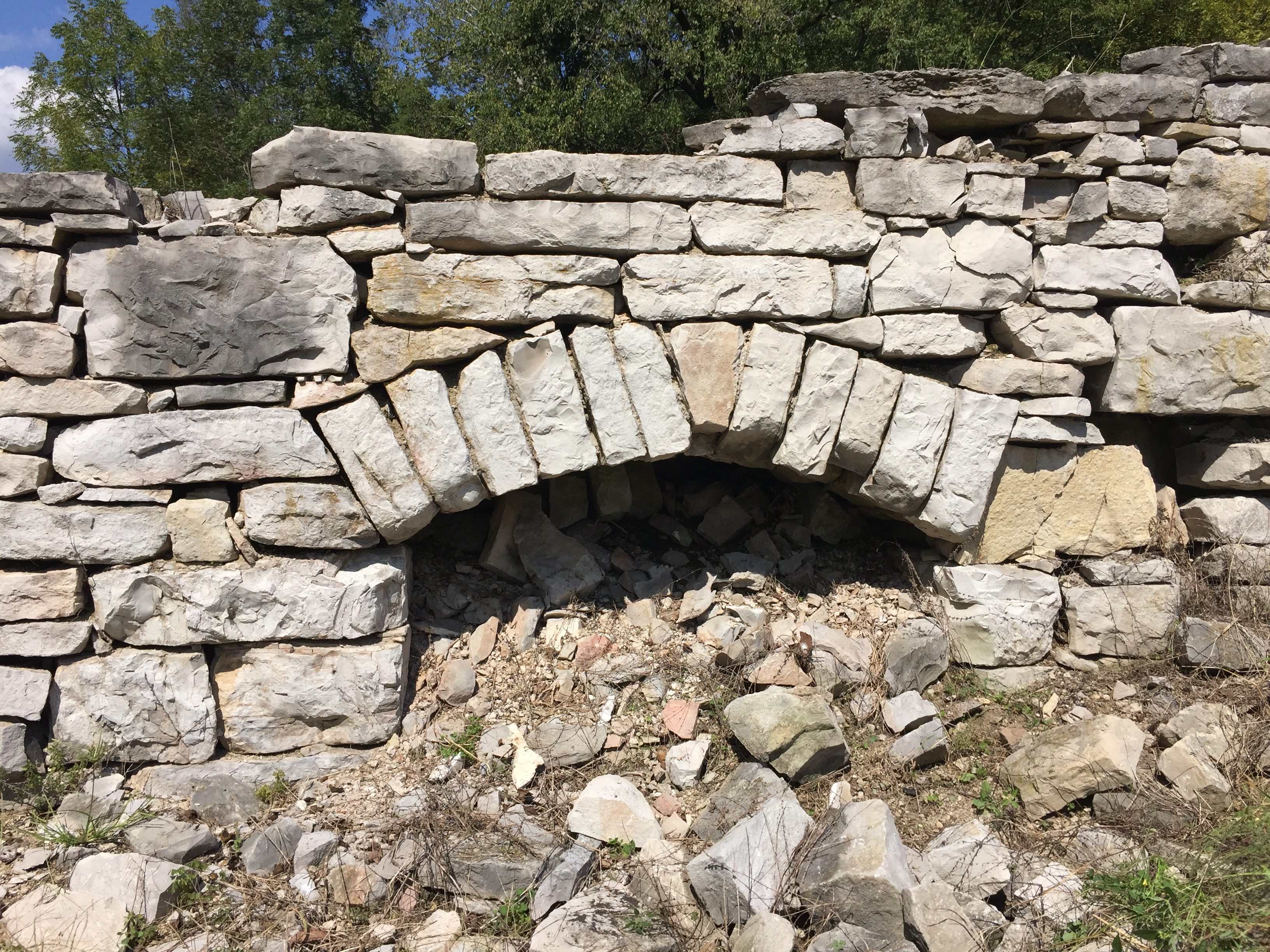 These are the remains of the Monroe City Mill today, showing the rock arch for the waterwheel.